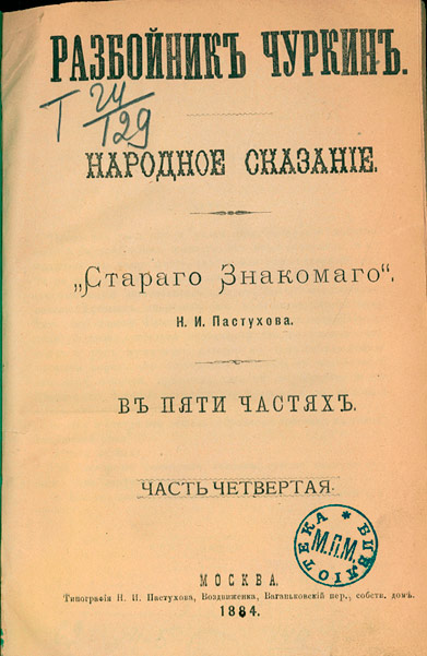 The book "Rogue Churkin" – cover, 1884